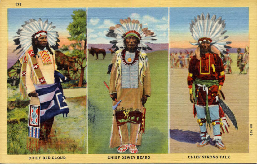 Three windows on this postcard show Native American chiefs in their customary manner of dress.